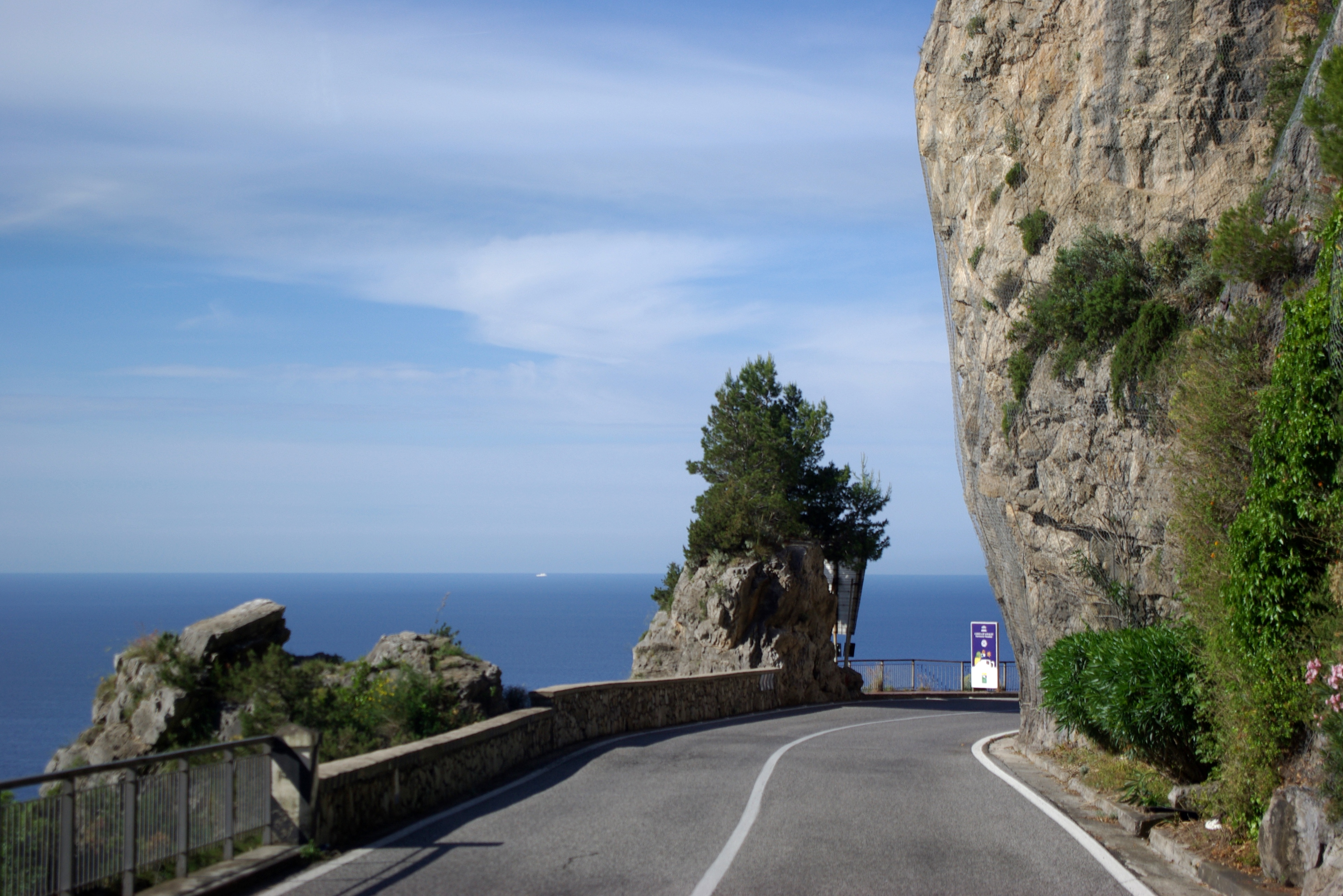 Strada statale 163 Amalfitana